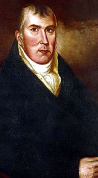 Matthew Talbot, Governor of Georgia